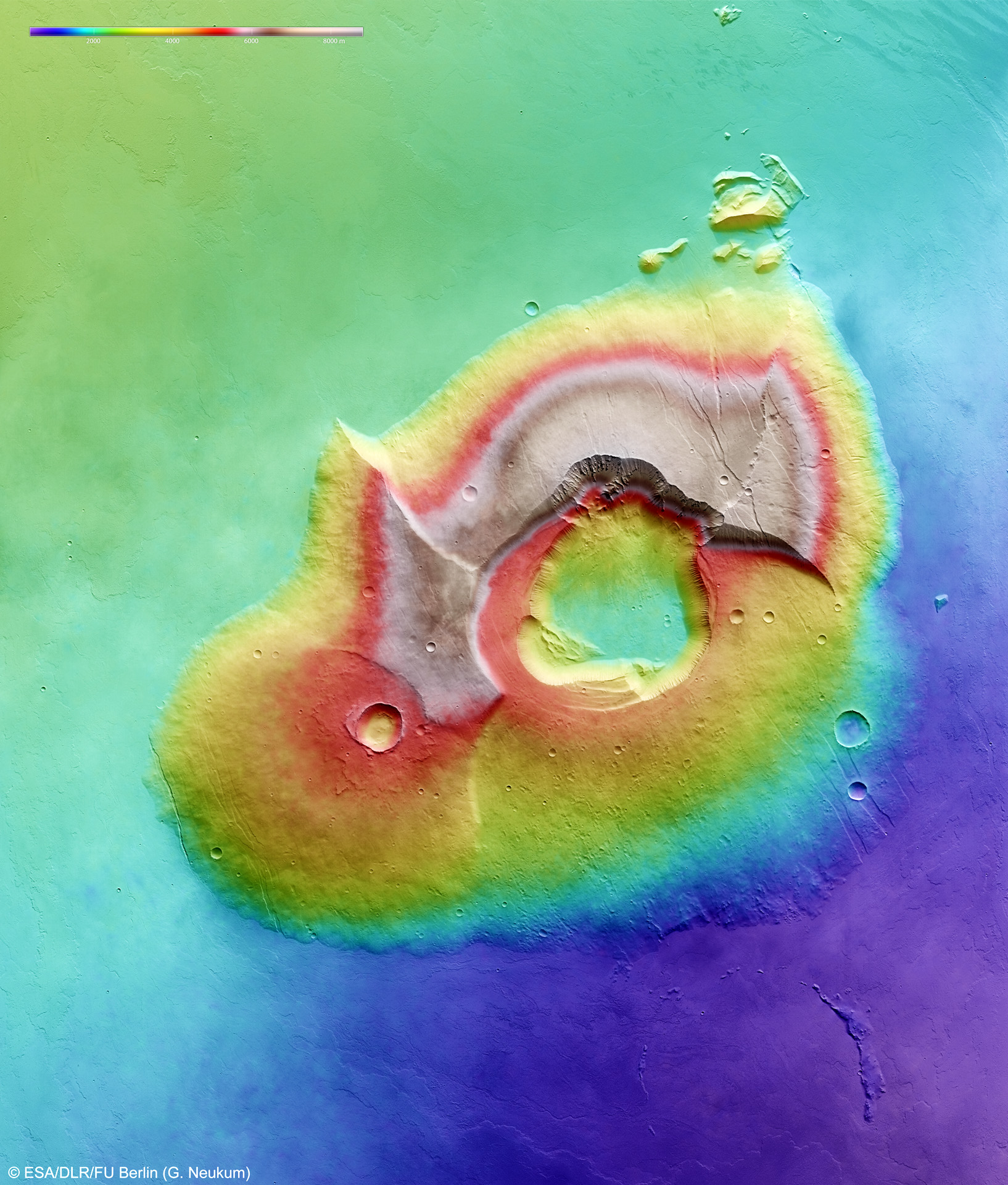 Tharsis Tholis towers 8 km above the surrounding terrain. Its base stretches 155 x 125 km and what marks it out as unusual is its battered condition. The main feature of Tharsis Tholus is the caldera at its centre. It has an almost circular outline, about 32 x 34 km, and is ringed by faults where the caldera floor has subsided by as much as 2.7 km. The image was created using a Digital Terrain Model (DTM) obtained data taken by the High Resolution Stereo Camera on ESA’s Mars Express spacecraft during four orbits of Mars: 0997, 1019, 1041, 1052 between 28 October and 13 November 2004. Elevation data from the DTM is colour coded: purple indicates the lowest lying regions and beige the highest. The scale is in metres. For more images of Tharsis Tholus and more from Mars Express, please visit: Credit: ESA/DLR/FU Berlin (G. Neukum), CC BY-SA 3.0 IGO Copyright Notice: This work is licenced under the Creative Commons Attribution-ShareAlike 3.0 IGO (CC BY-SA 3.0 IGO) licence. The user is allowed to reproduce, distribute, adapt, translate and publicly perform this publication, without explicit permission, provided that the content is accompanied by an acknowledgement that the source is credited as 'ESA/DLR/FU Berlin’, a direct link to the licence text is provided and that it is clearly indicated if changes were made to the original content. Adaptation/translation/derivatives must be distributed under the same licence terms as this publication. To view a copy of this license, please visit